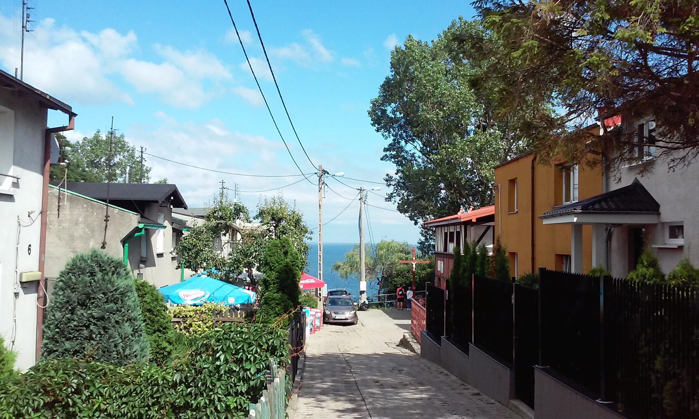 Gdynia Oksywie, Osada Rybacka, Poland